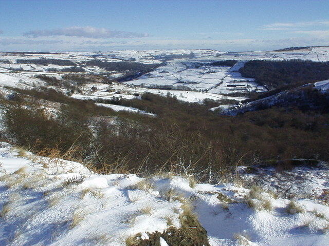 Broadhead Clough from Erringden Moor Broadhead Clough is a nature reserve managed by the Yorkshire Wildlife Trust and a SSSI.